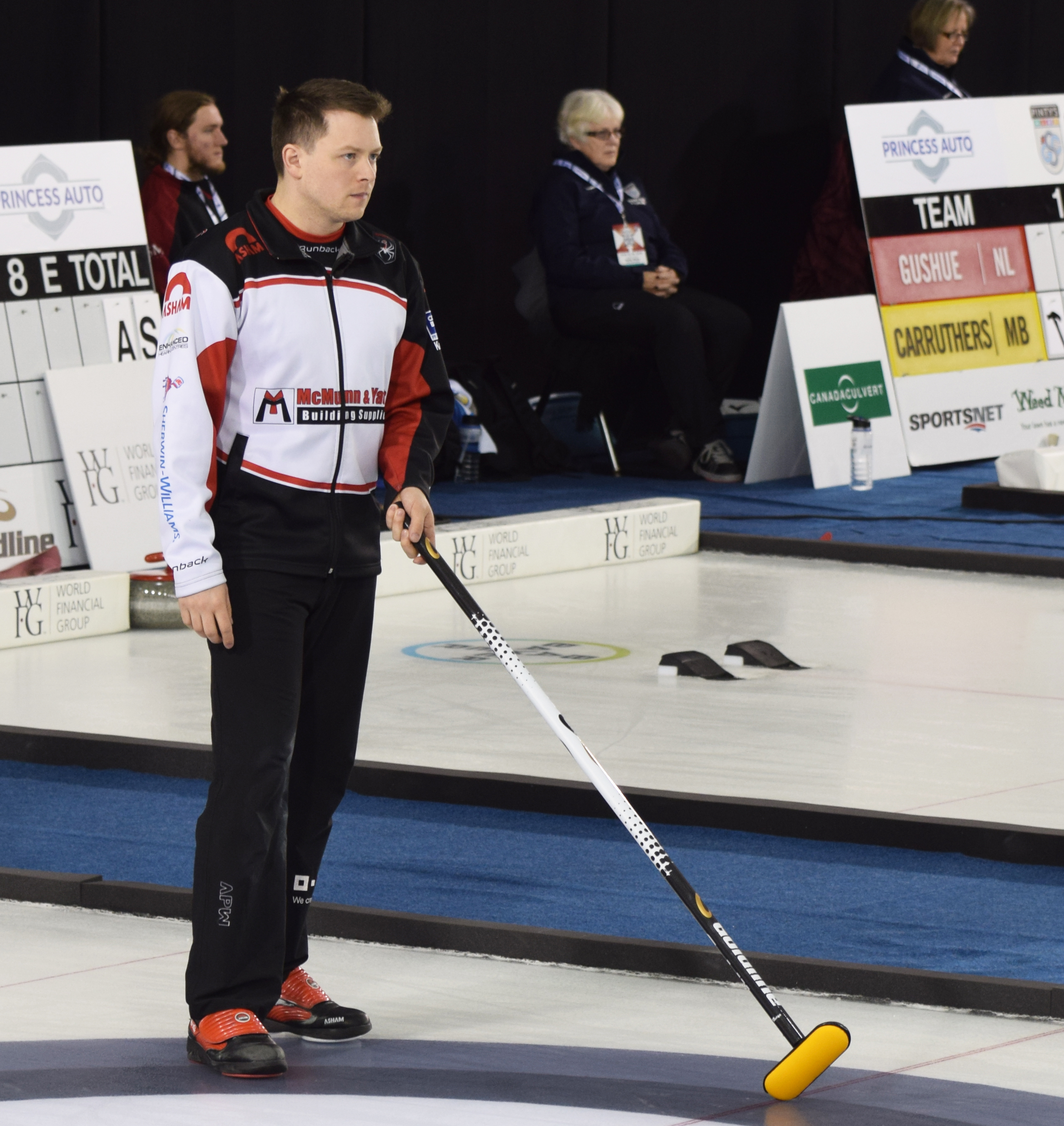 Jason Gunnlaugson at the 2018 Elite 10 Grand Slam curling event in Winnipeg, Manitoba.